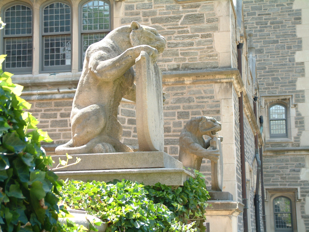 Princeton tiger crest2